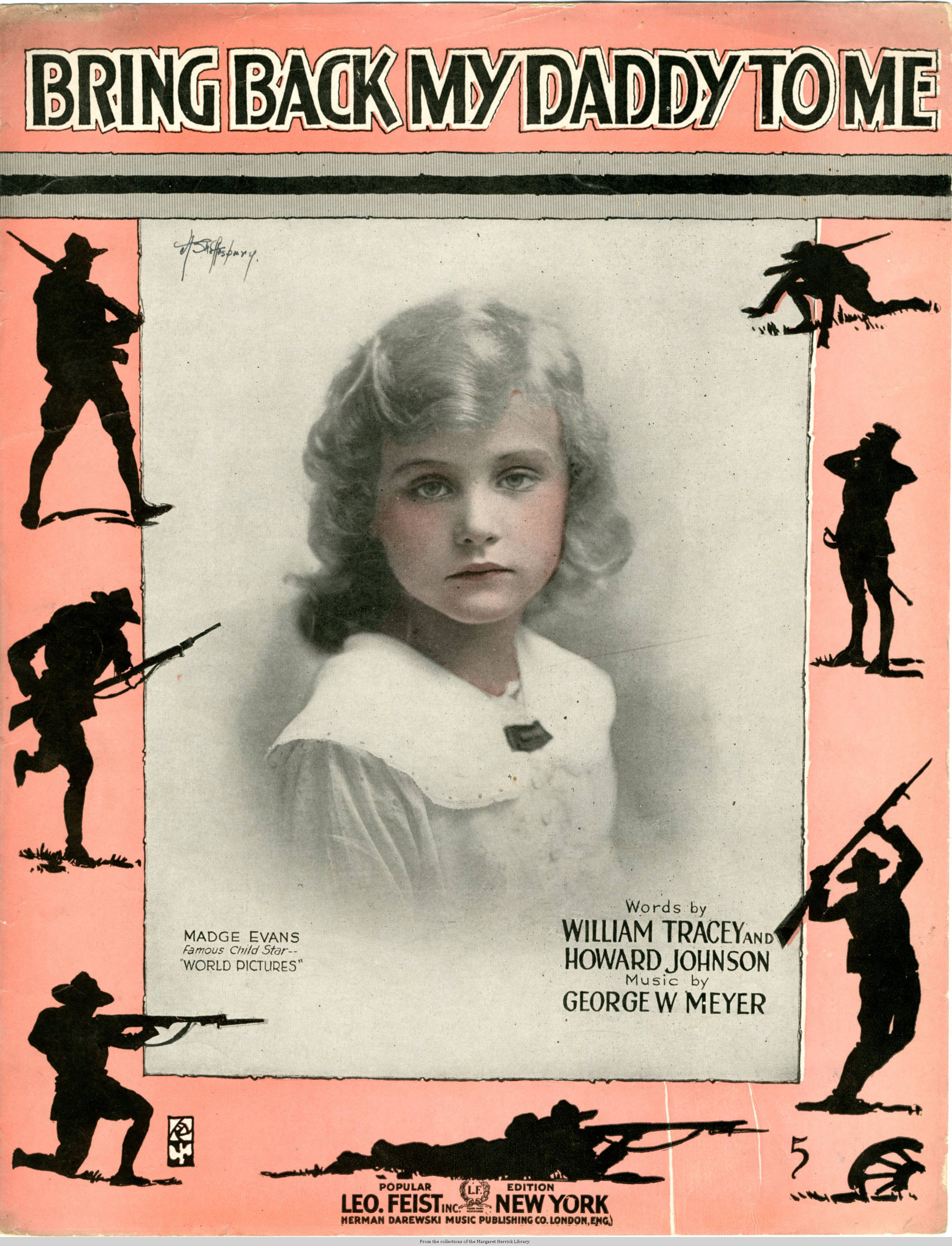 Sheet music cover: "Bring Back My Daddy To Me" 1 vocal score ([3] p.) ; 35 cm. Illustrated cover with image of Madge Evans / Shottesbury.